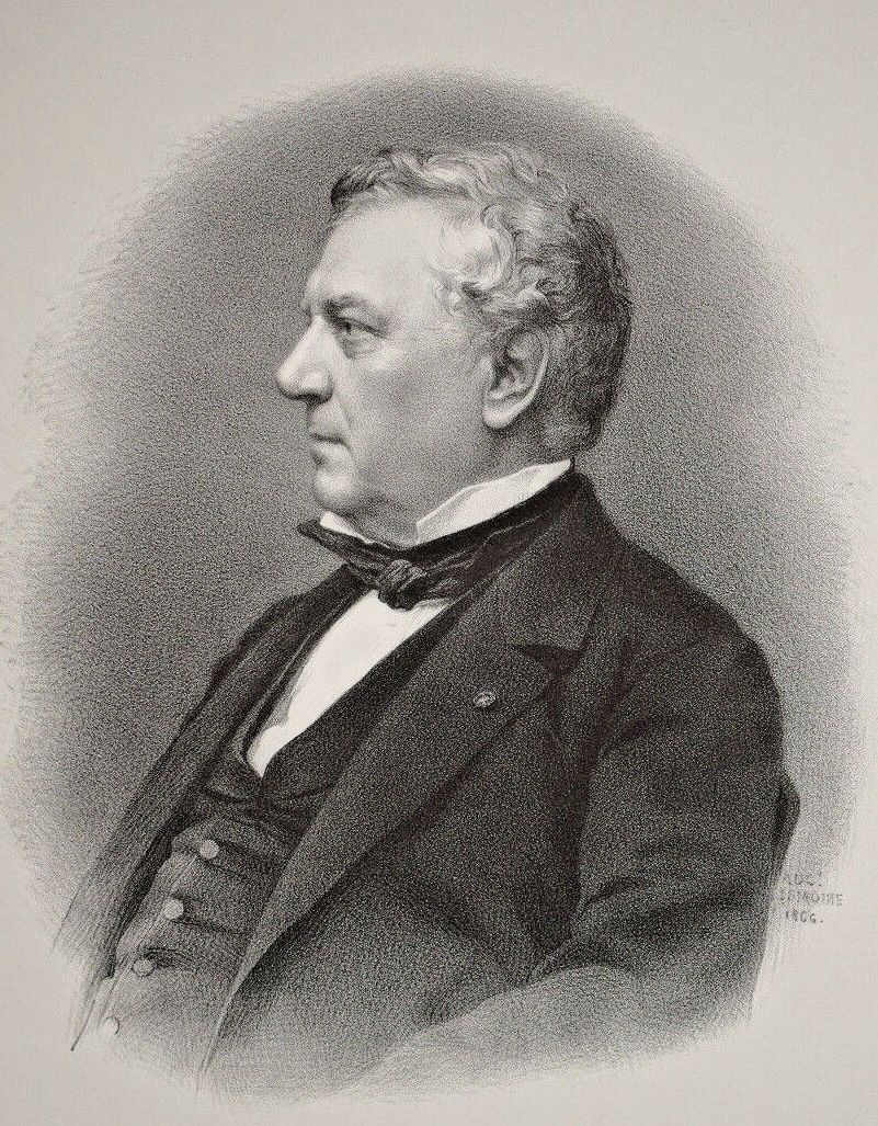 French jurist Augustin-Charles Renouard (1794-1878)